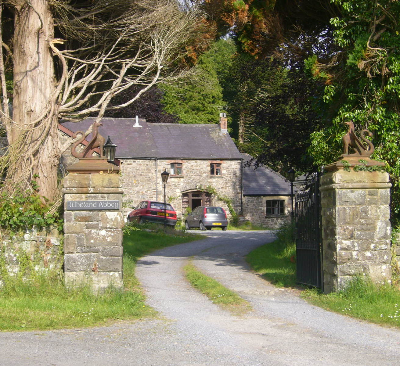 Entrance to Whitland Abbey, Whitland, Carmarthenshire, Wales. The stones of the original Cistercian abbey were no doubt plundered to build the "big house" (out of shot to the right).